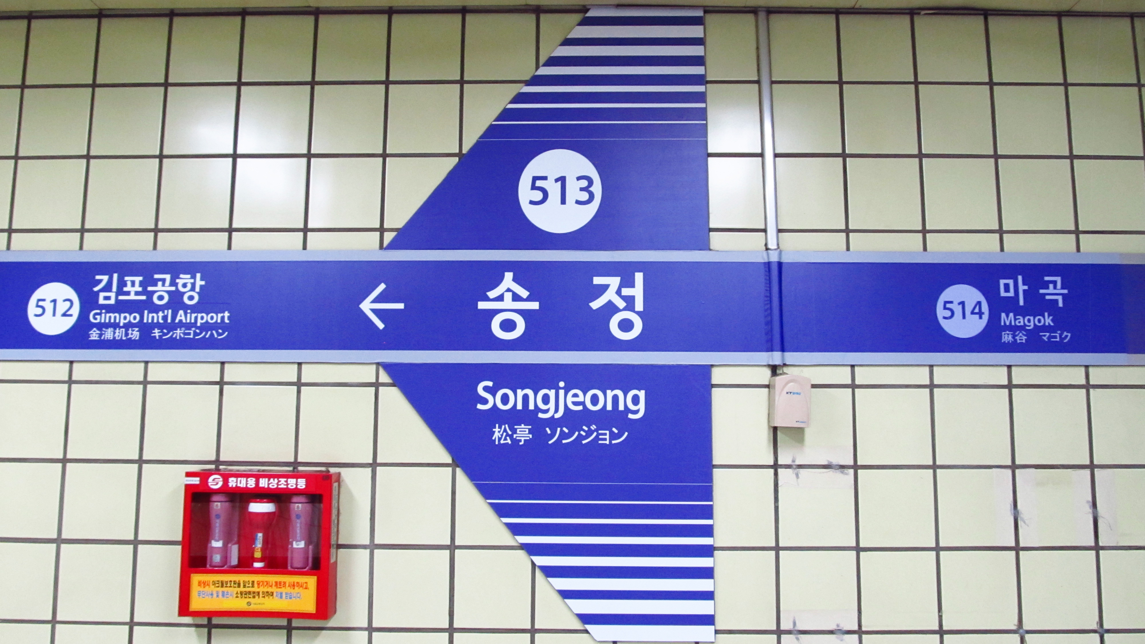 A sign of Songjeong Station on Seoul Subway Line 5